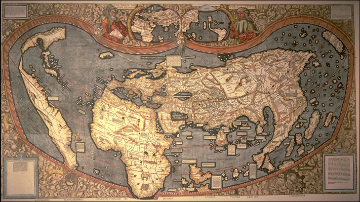 's 1507 map, in color